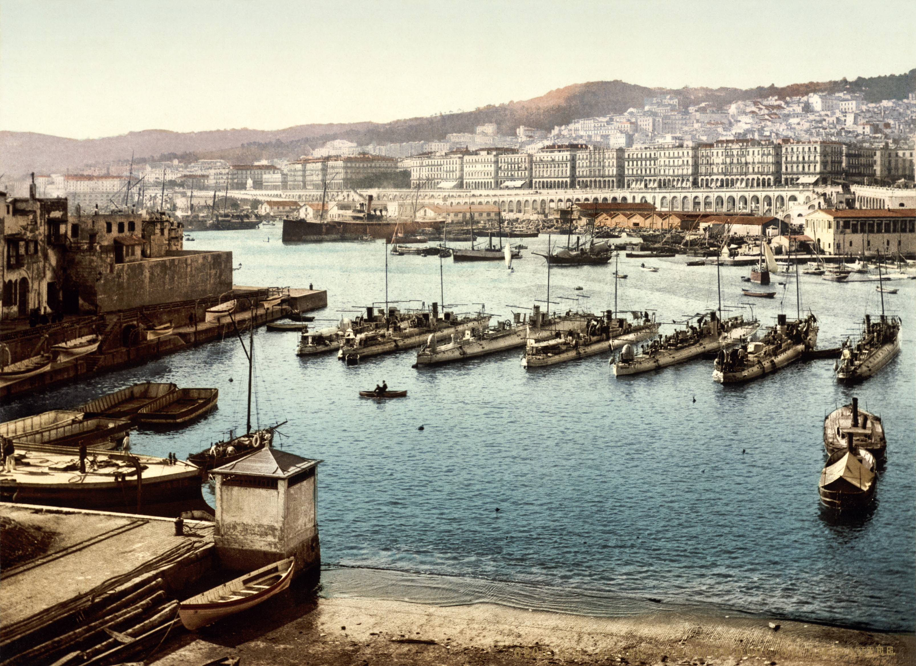 6205 P.Z. Alger, Vue prise de l'Amirautée. Photochrom print by Photoglob Zürich, between 1890 and 1900. From the Photochrom Prints Collection at the Library of Congress More photochroms from Algeria | More photochrom prints [PD] This picture is in the public domain